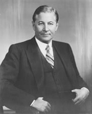 James Edward Murray was a United States Senator from Montana, and a member of the Democratic Party. The source of this file is the United States Senate Historical Office. I got permission (to post this photo on Wikipedia) over the phone, in person, from Ms. Heather Moore, the United States Senate Photo Historian. Ms. Moore can be reached at 202-224-6900. The url contact page for Ms. Moore is Ms. Moore said that the photo is in the public domain, but that credit for the photo does need to be posted as "credited to the U.S. Senate Historical Office." The URL where this photo was retrieved from is